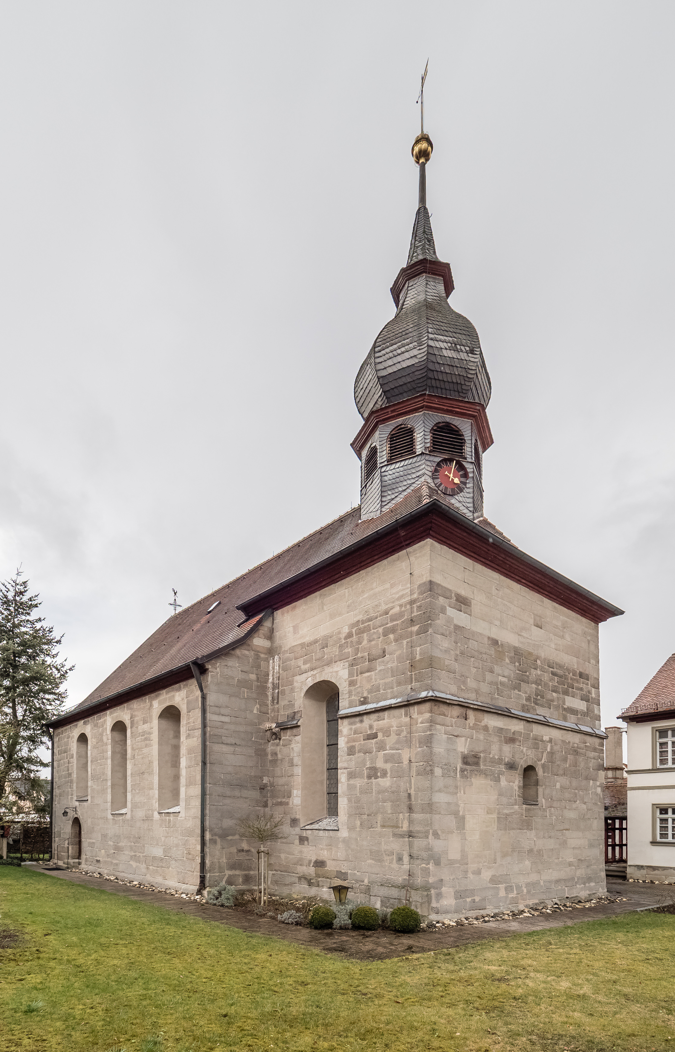 Evangelical Lutheran Church Peter and Paul in Limbach near Pommersfelden